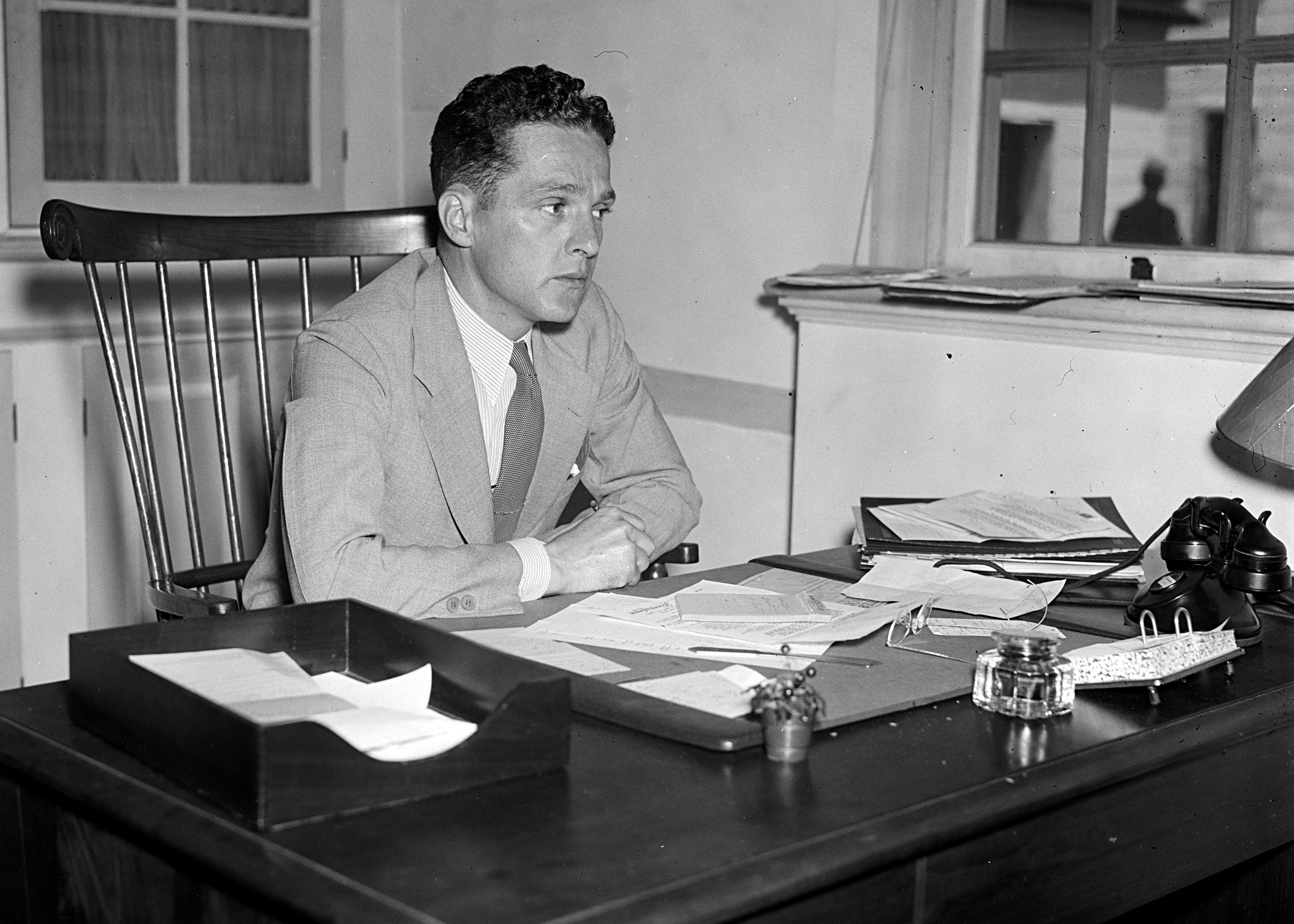 Michael J. Bradley, US Representative from Pennsylvania